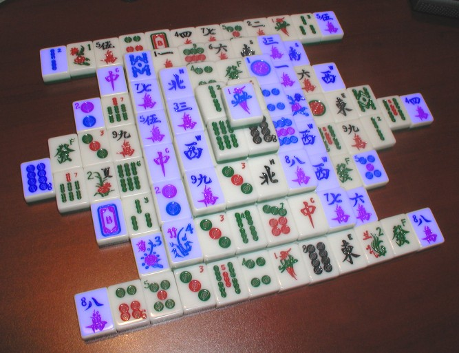 A Shanghai solitaire using Mah Jong tiles, set in the "Turtle" formation, and with free tiles highlighted. Photographed and edited on May 08 2005.